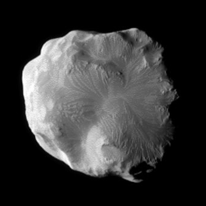 Cassini imaged the surface of Saturn's moon Helene as the spacecraft flew by the moon on Jan. 31, 2011. This small moon leads Dione by 60 degrees in the moons' shared orbit. Helene is a "Trojan" moon of Dione, named for the Trojan asteroids that orbit 60 degrees ahead of and behind Jupiter as it circles the Sun. See PIA12723 for an earlier, closer view. This view looks toward the leading hemisphere of Helene (33 kilometers, 21 miles across). North on Helene is up and rotated 2 degrees to the left. The image was taken with the Cassini spacecraft narrow-angle camera using a combination of spectral filters sensitive to wavelengths of polarized green light centered at 617 and 568 nanometers. The view was obtained at a distance of approximately 31,000 kilometers (19,000 miles) from Helene and at a Sun-Helene-spacecraft, or phase, angle of 65 degrees. Scale in the original image was 187 meters (612 feet) per pixel. The image was contrast enhanced and magnified by a factor of 1.5 to enhance the visibility of surface features. The Cassini Solstice Mission is a joint United States and European endeavor. The Jet Propulsion Laboratory, a division of the California Institute of Technology in Pasadena, manages the mission for NASA's Science Mission Directorate, Washington, D.C. The Cassini orbiter was designed, developed and assembled at JPL. The imaging team consists of scientists from the US, England, France, and Germany. The imaging operations center and team lead (Dr. C. Porco) are based at the Space Science Institute in Boulder, Colo. For more information about the Cassini Solstice Mission visit and The original NASA image has been modified by cropping, doubling the linear pixel density, sharpening, lightening shadows and increasing contrast.